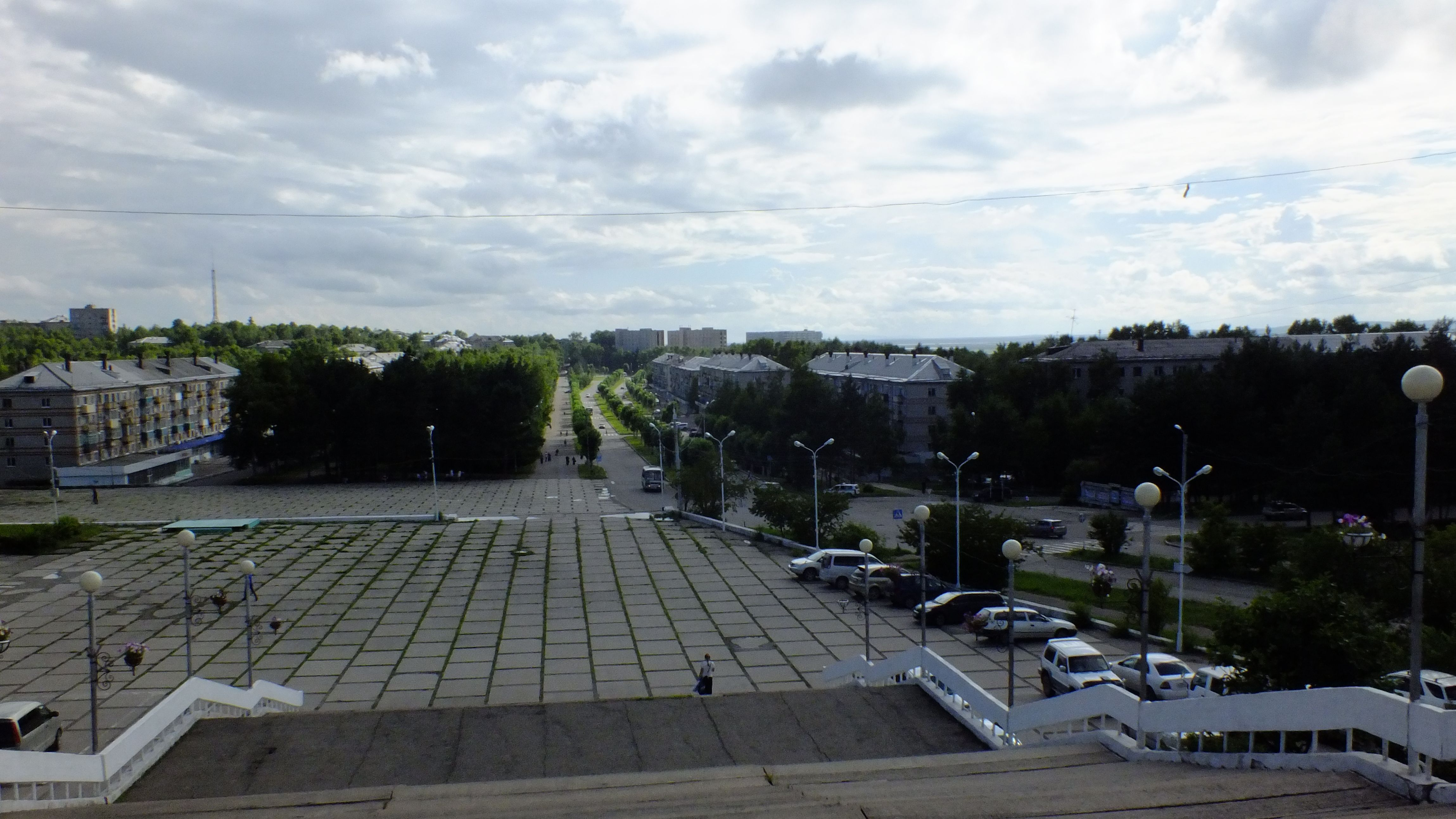 Amursk